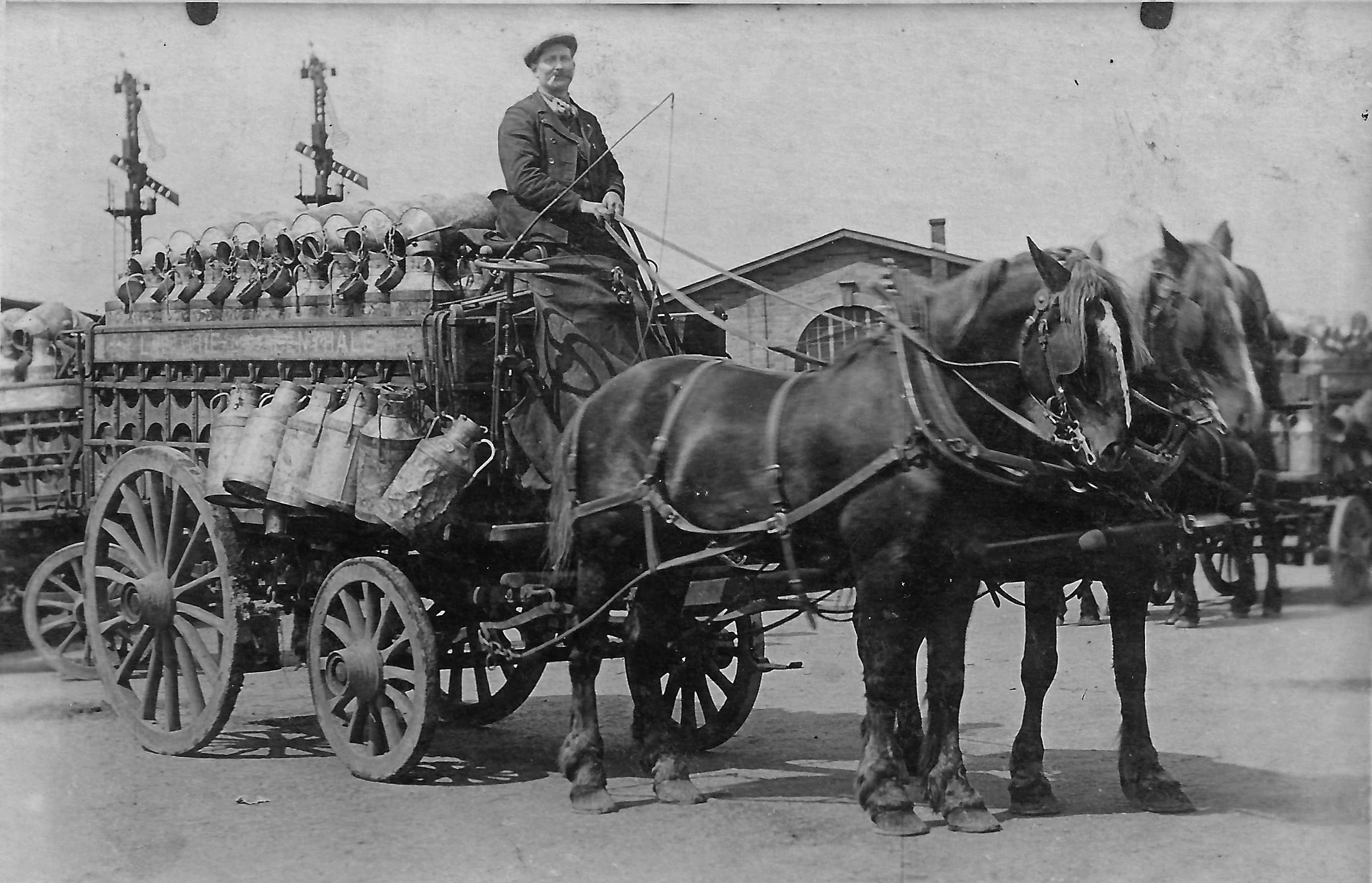 Julien Delanchy (1892-1962), laitier hyppomobile